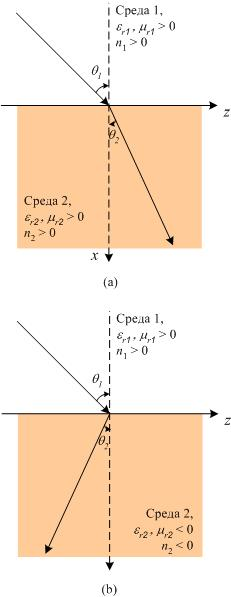 Ray refraction between two mediums. (a) Positive index of refraction - the transmitted ray in the second medium is placed on the opposite half-plane compared to the incident ray; (b) Negative index of refraction - the transmitted ray in the second medium lays in the same half-plave as the incident ray.